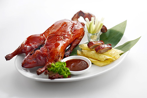 Peking duck by Peking Vitquaytothi